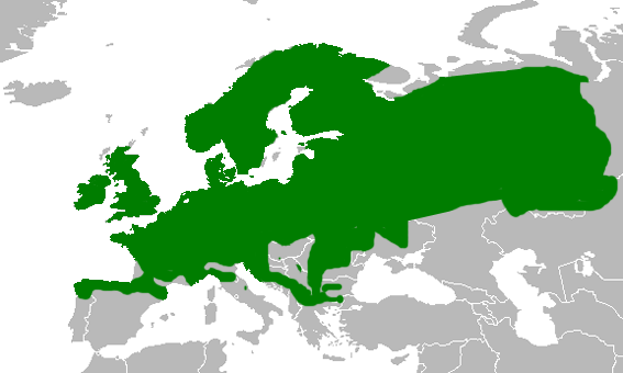 Range map of Rana temporaria.